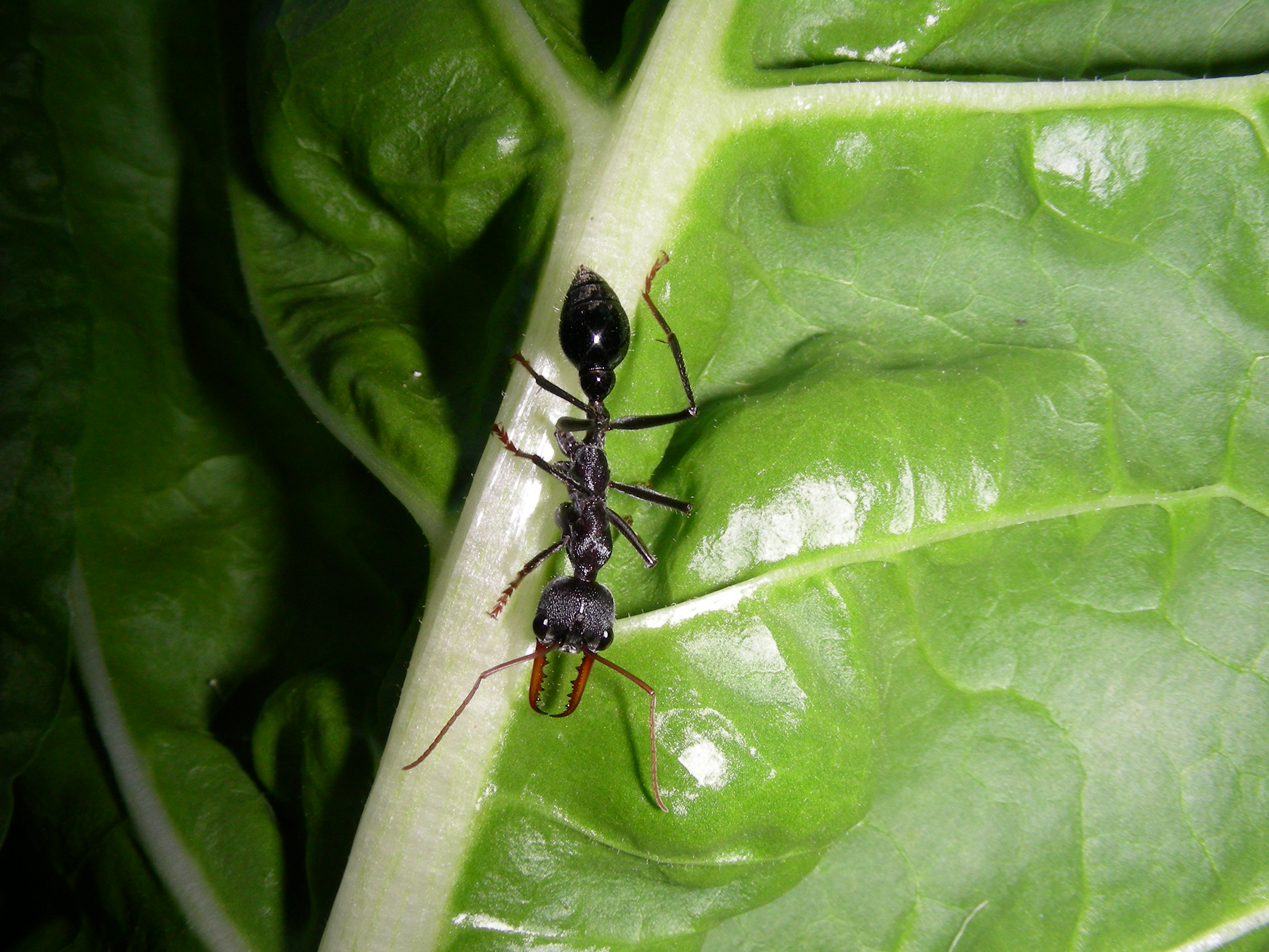 I think this is Myrmecia tarsata, a predator of the vegetable garden eats grubs, moths and butterflies, virtually anything that moves, including me if i"m not careful as it has the most painful sting that lasts for hours. So beware!